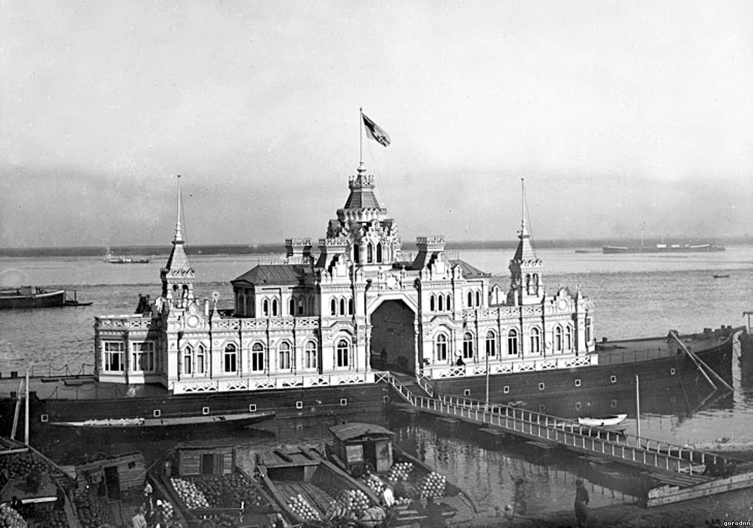 Pier of the Volunteer Fleet